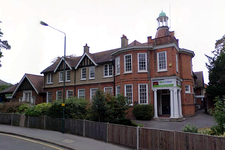 The Centre, situated on Station Road in Sidcup, Kent. It is one of the primary sites used by Bird College, a leading dance and performing arts college.